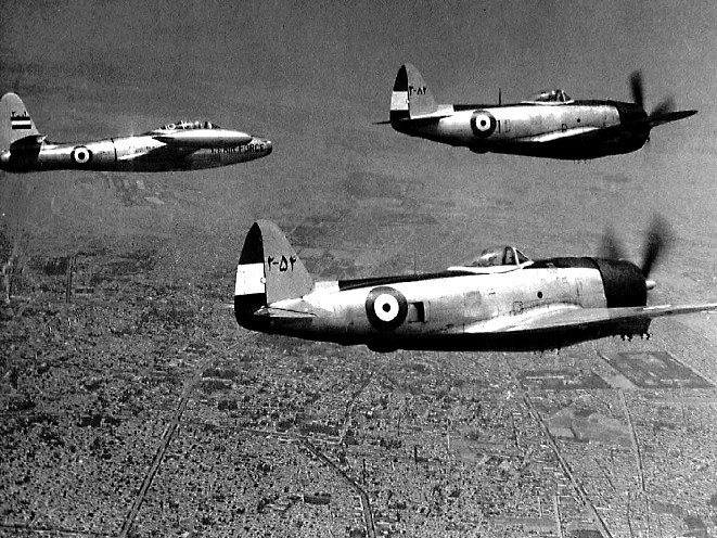 F-84 Thunderjet and two P-47 Thunderbolts formation comparison flight over Tehran